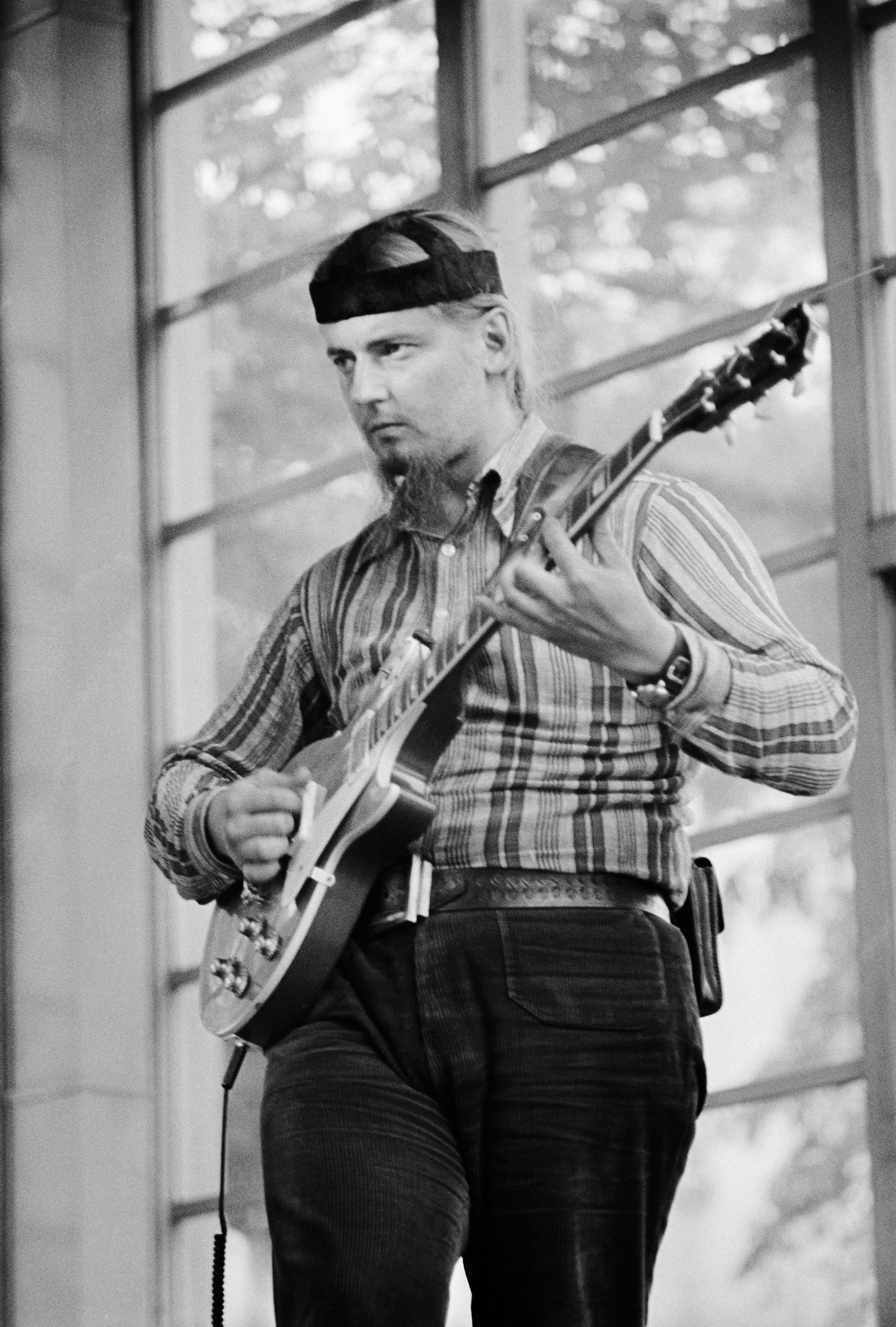 Photograph of the Finnish musician Ilpo (Ilja) Saastamoinen (1942–) when the band Dopplerin ilmiö performed in Esplanadi Park during Helsinki Festival.